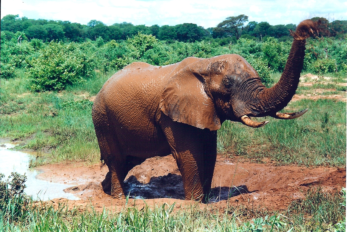 Male elephant mudbathing in Hwange National Park, Zimbabwe. Taken Dec 1999 on film. One of five photos (see below).